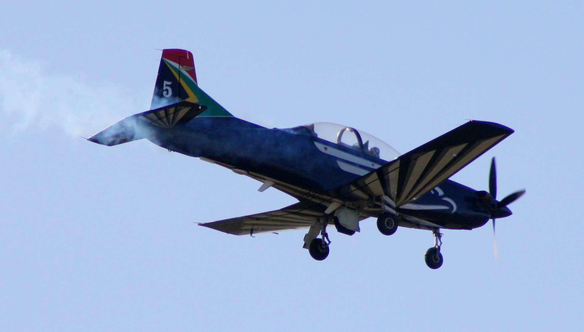 Silver Falcons PC-7 Mk II Nbr 5